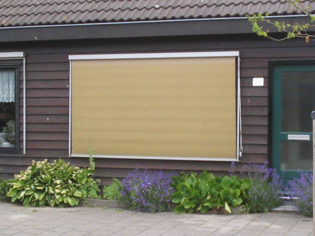 House with an extended sunshade somewhere in Tanthof, Delft.